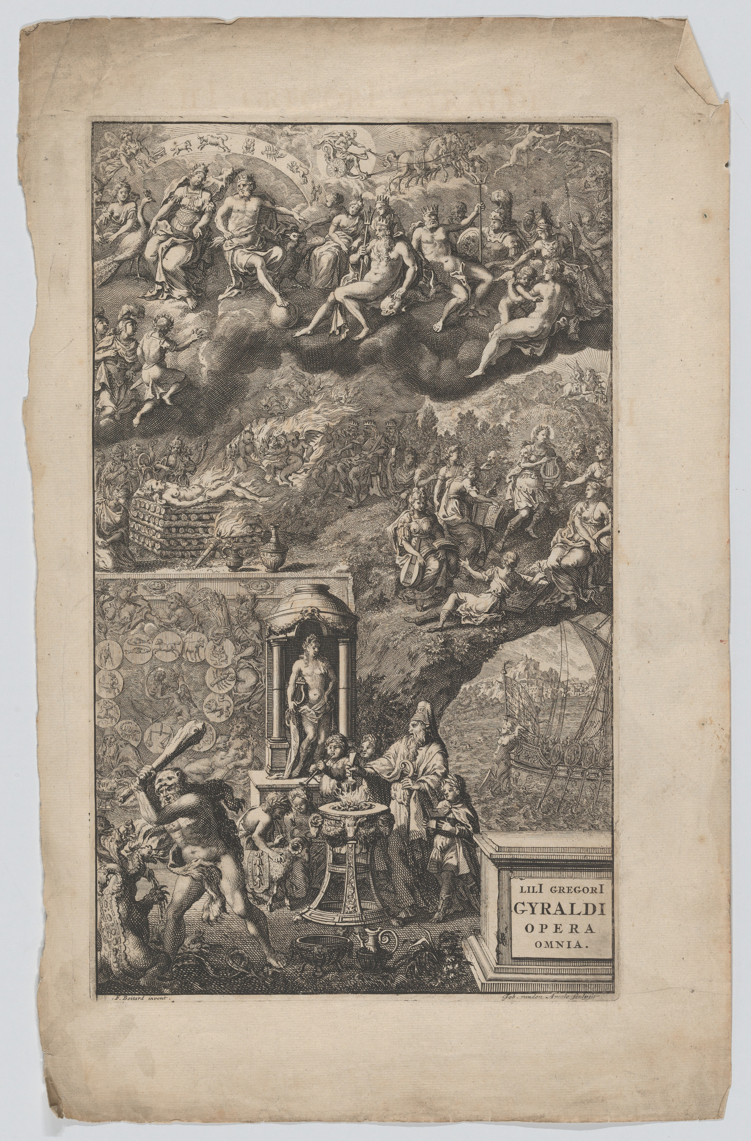 Print; Prints